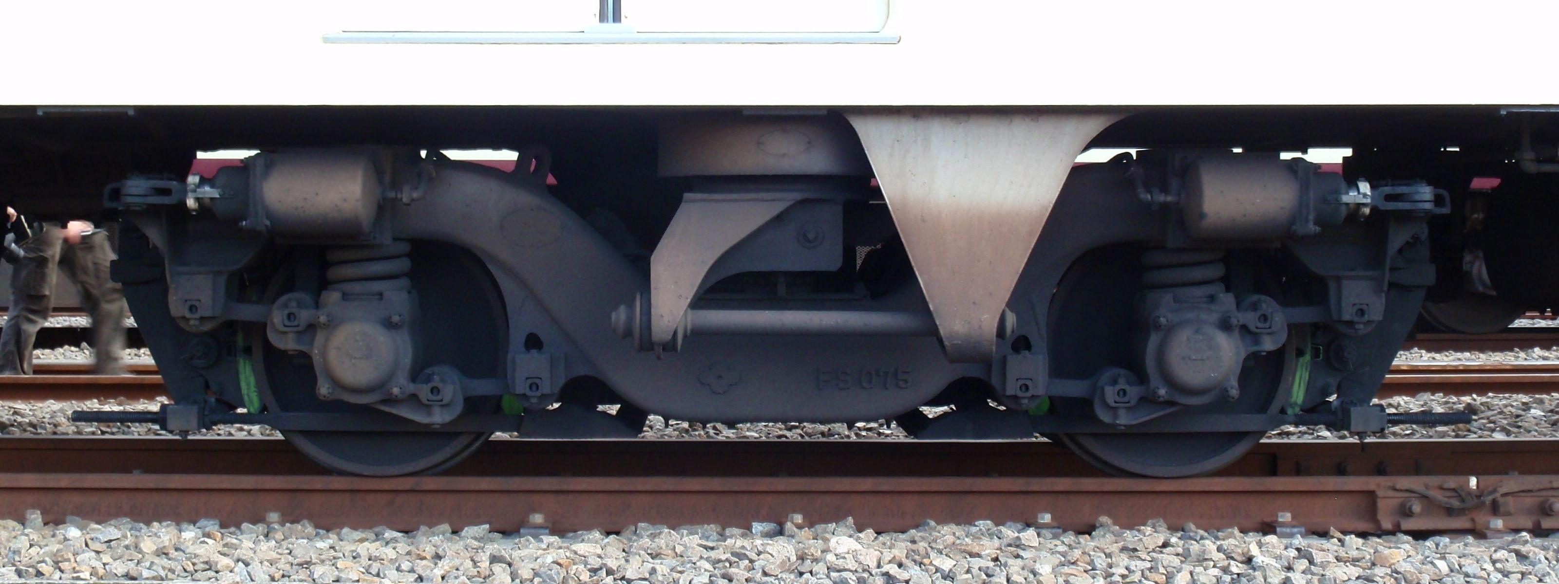 Bogie truck FS075 of Odakyu Electric Railway Company, EMU Type 5000.